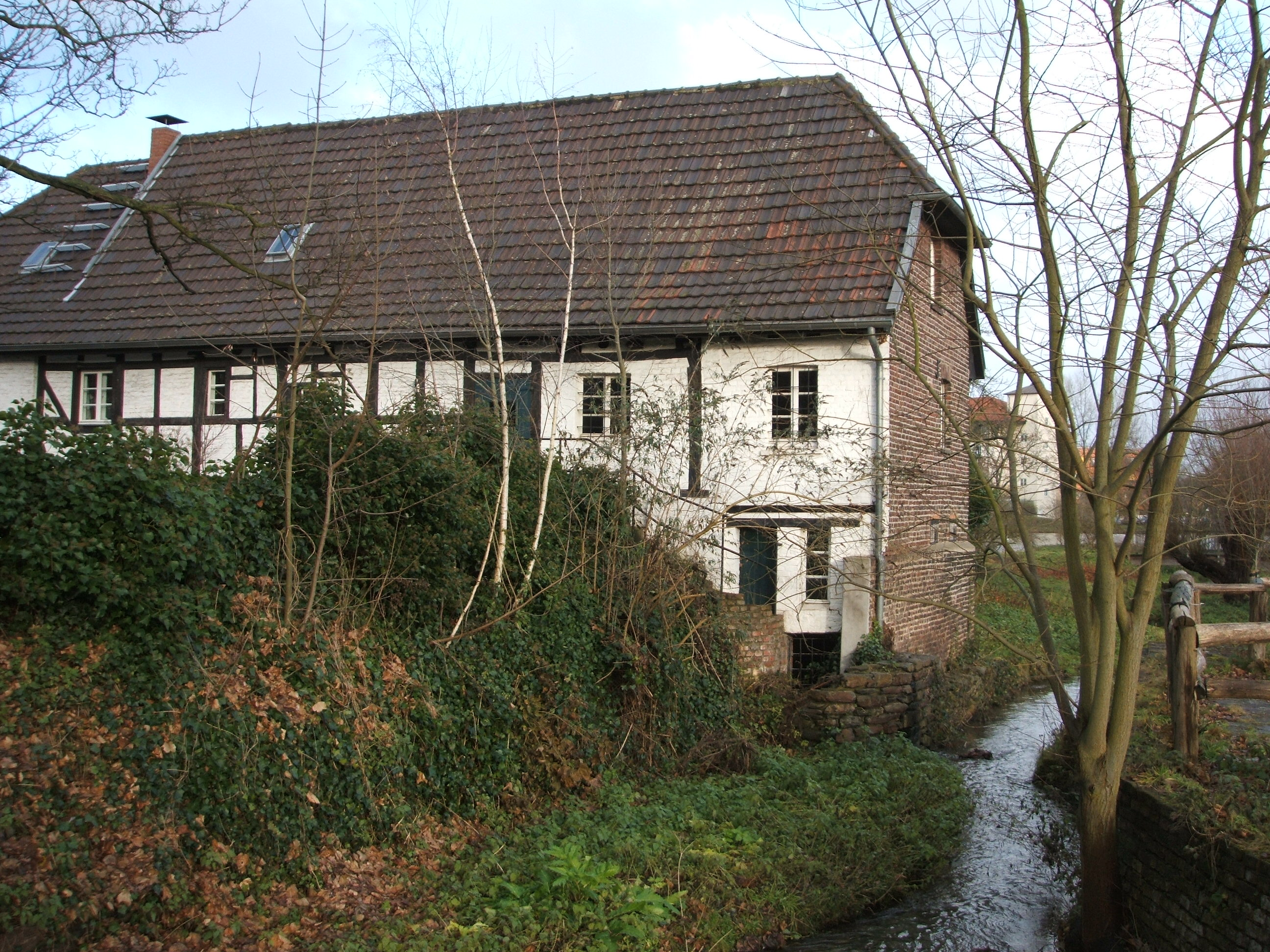 Picture of historical building "Sandmuehle" in Duisburg-Huckingen (southeast view)